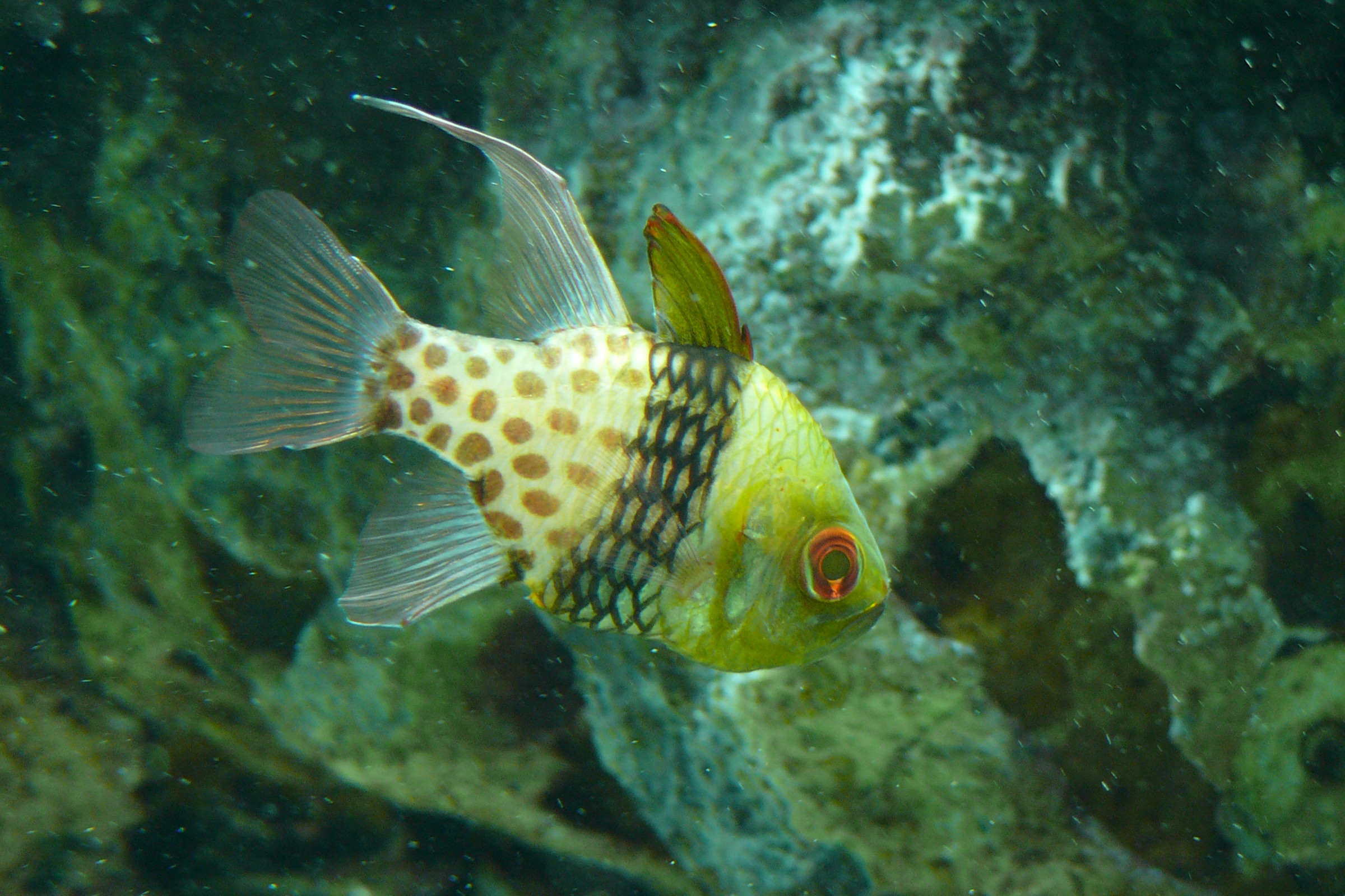 Pajama cardinalfish (Sphaeramia nematoptera)